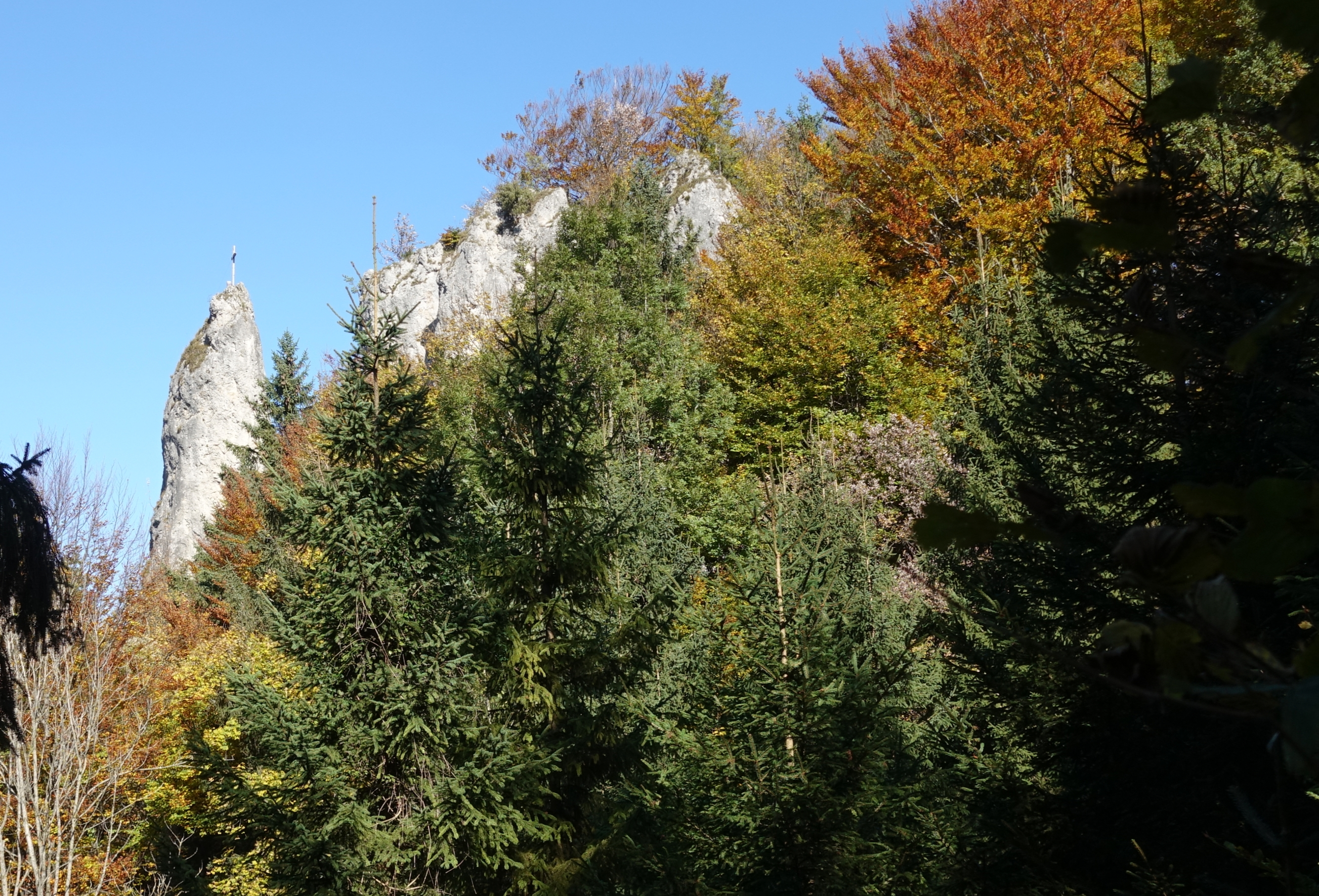 Sauzahn near Laussa